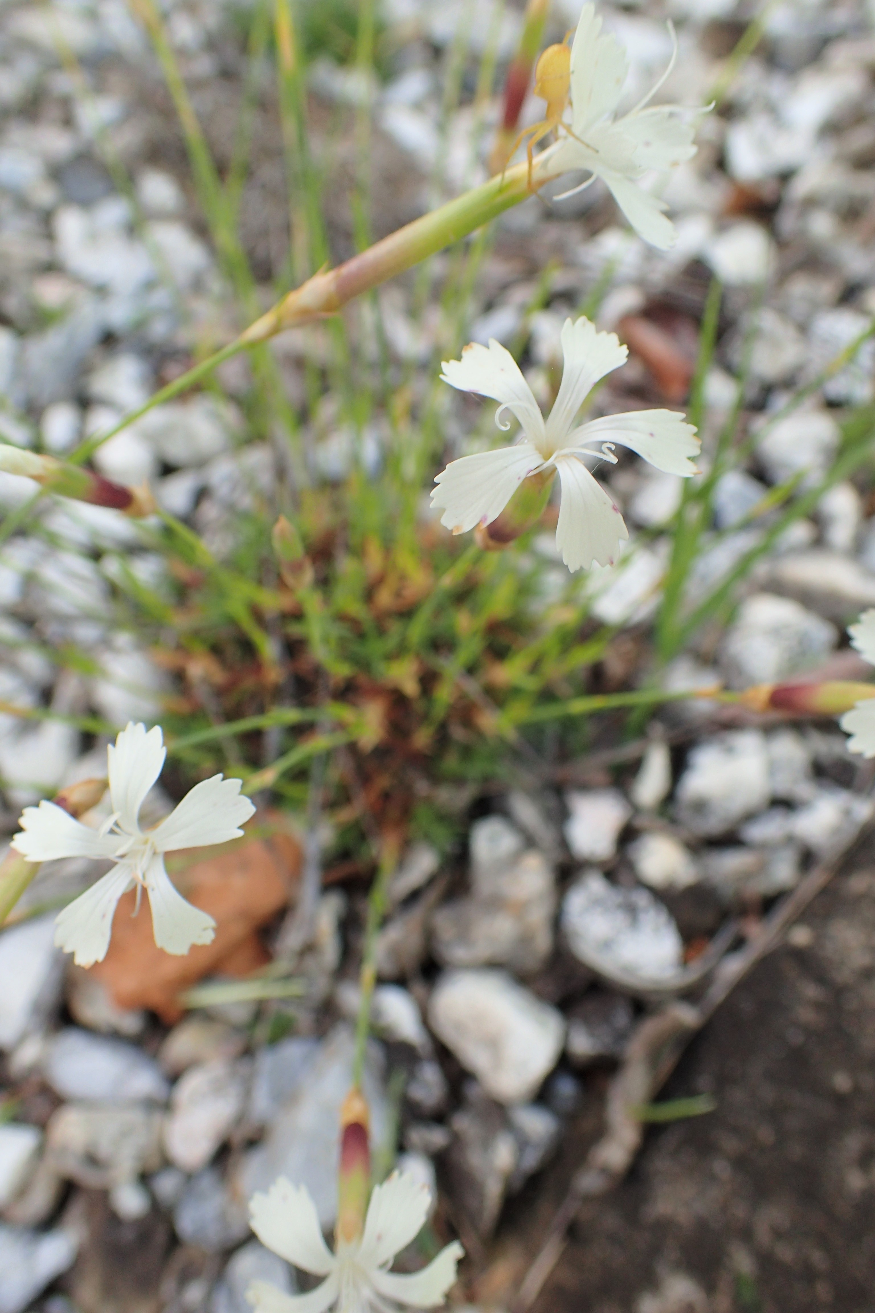 Dianthus petraeus subsp. orbelicus in Balkan Botanic Garden of Kroussia (plants from Mt. Pageo)